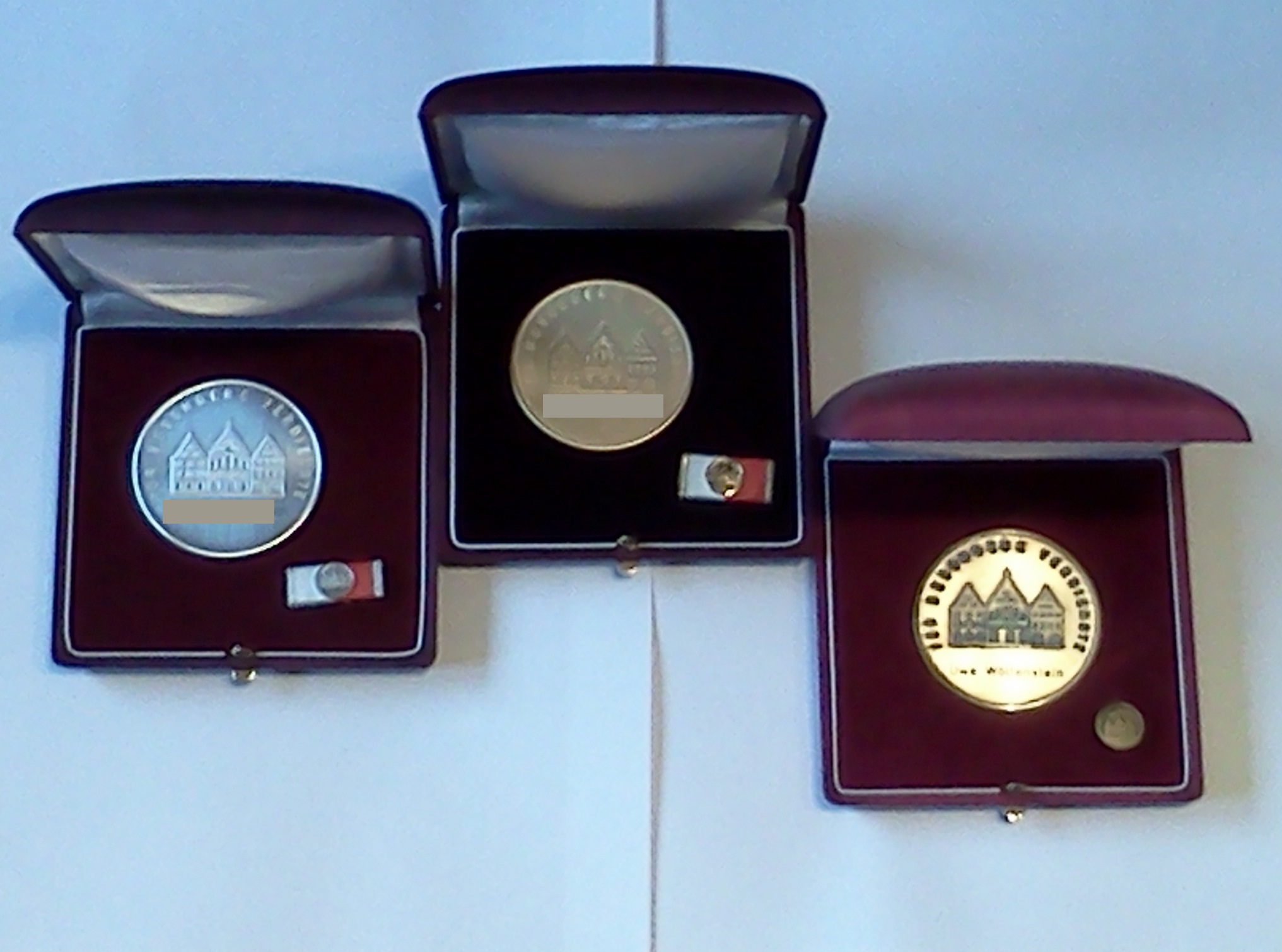 Romans badge in silver (15 years), gold (20 years) and bronze (10 years) for volunteering for the City of Frankfurt am Main